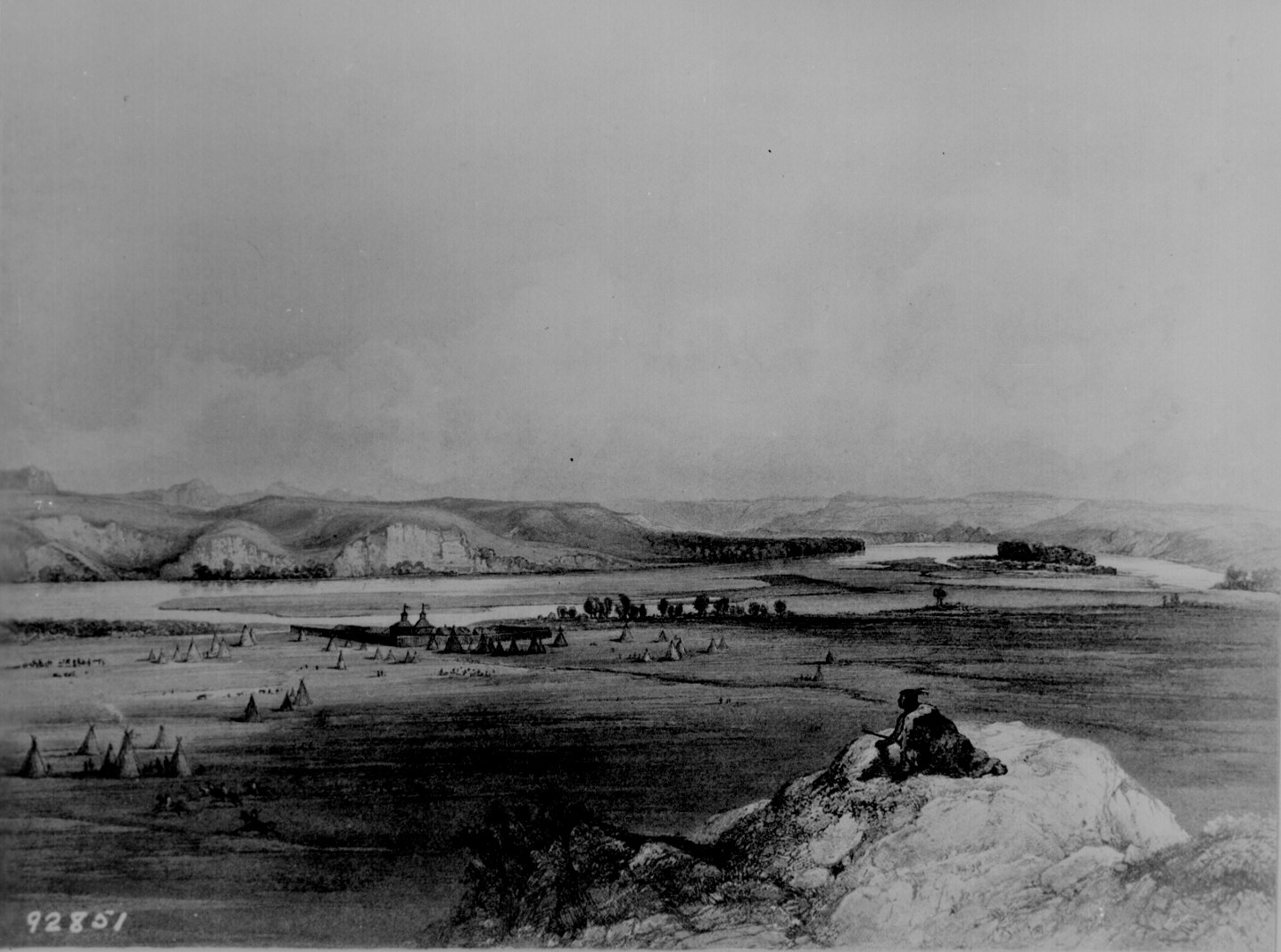 "Fort Pierre [S. Dak.] and the Adjacent Prairie". 1839 Second Expedition of Mr Nicollet North of Missour River, with Second Lieutenant Of Toporgarphical Engineers, John C. Freemont. Left St Louis in early April of 1839 on board the Antelope, one of the American Fur Company's steam boat. On the seventieth day they reached Fort Pierre, the chief post of the American Fur Company. From "Memoirs of My Life, by John C. Fremont,pg 39